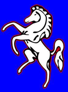 White horse of Kent on a blue background